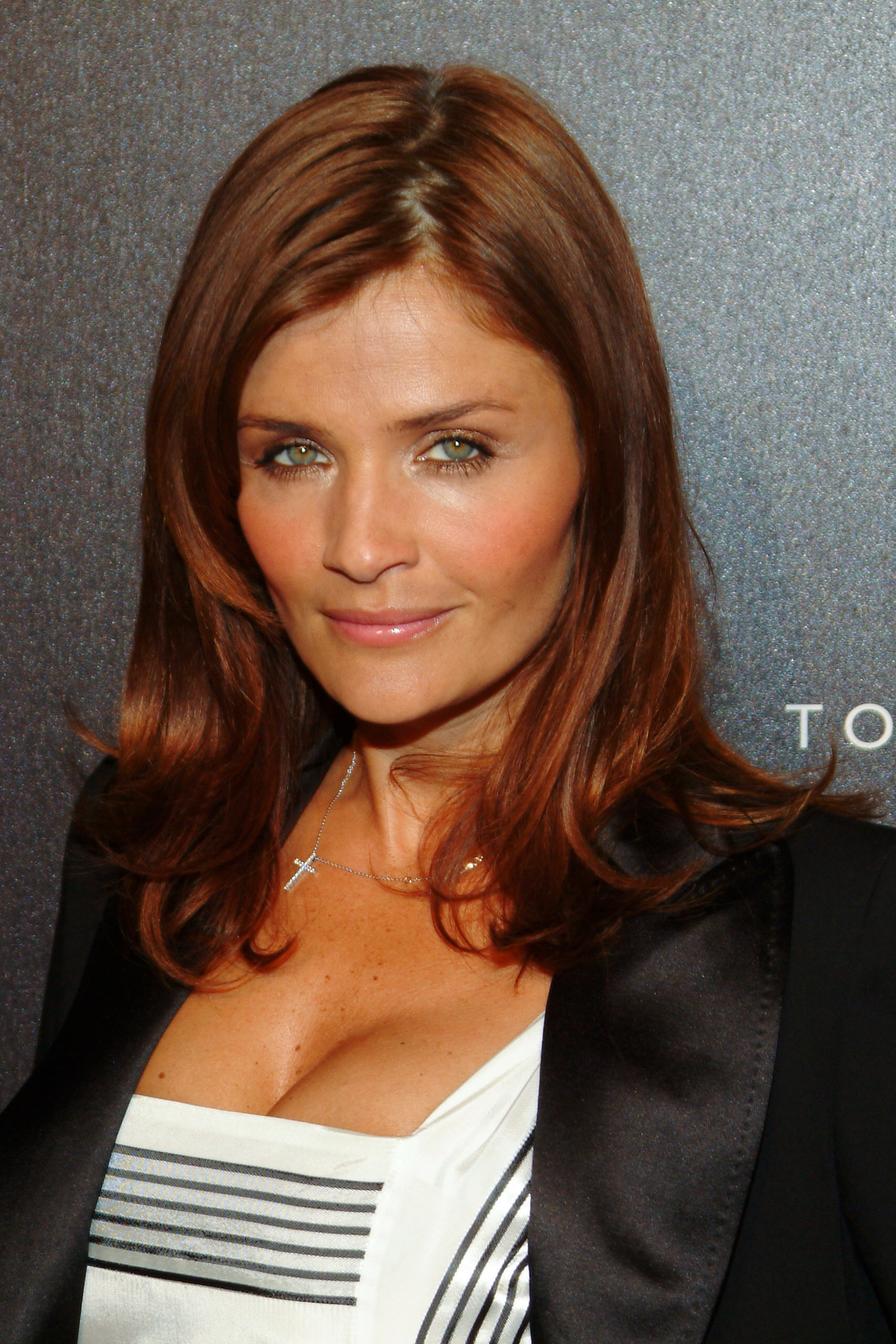 Helena Christensen in Cologne